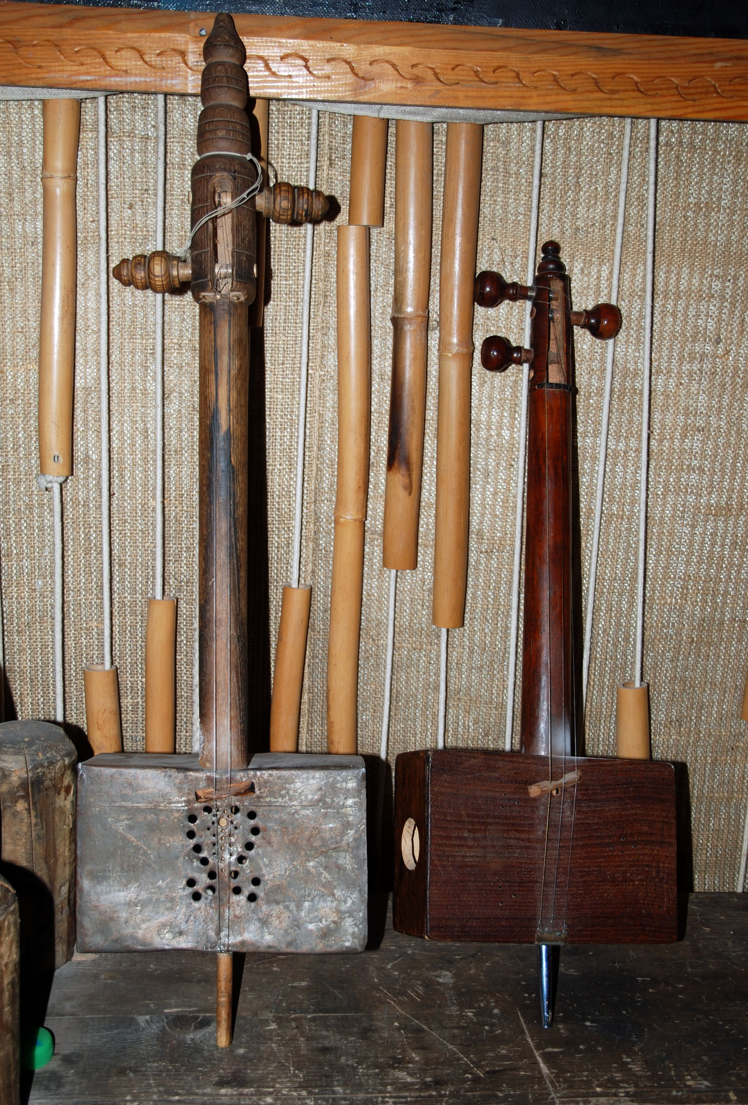 Ghaychak, Gurminj Museum of Musical Instruments, Dushanbe, Tajikistan